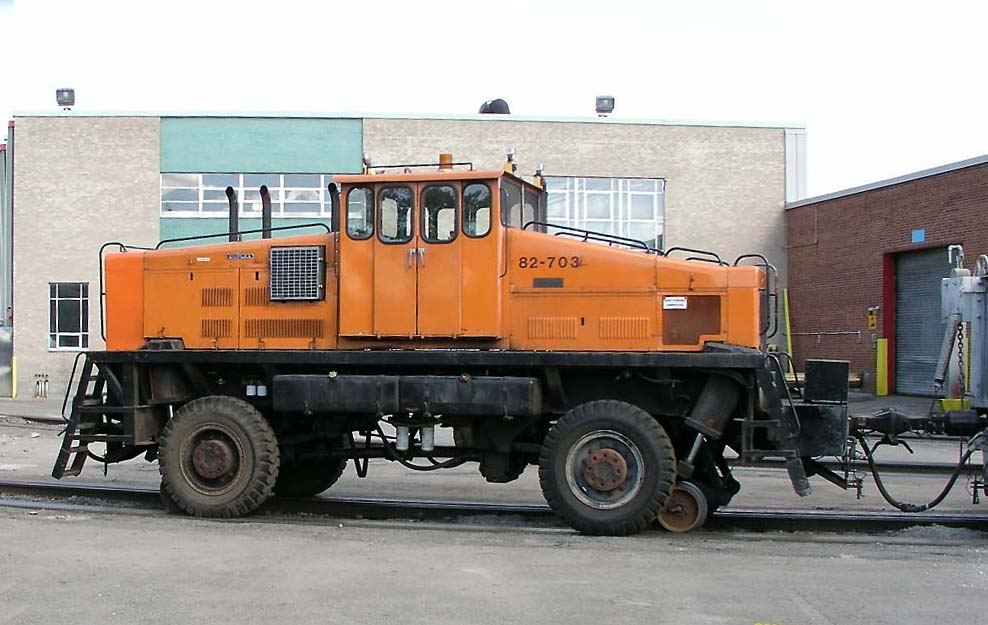 Old «Duplex» tractor used for the traction of heavy work trains in the Montréal Métro system. Traction is done through the rubber-tyred wheels and guidance is done by the retractable flanged wheels. They are capable of being operated on the street.